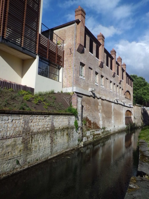 Robec stream and former dying factory Auvray